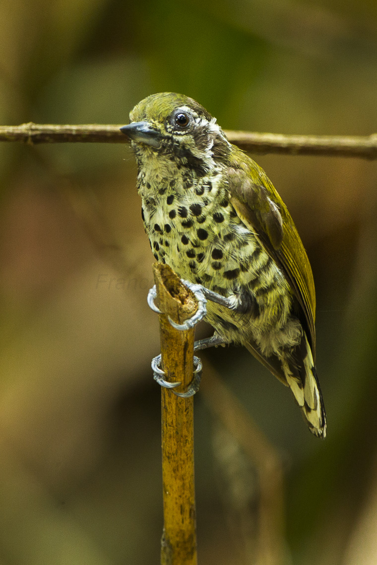 Speckled Piculet - Thailand_S4E5000